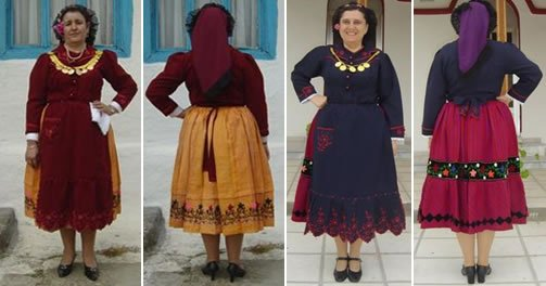 gagauz greece